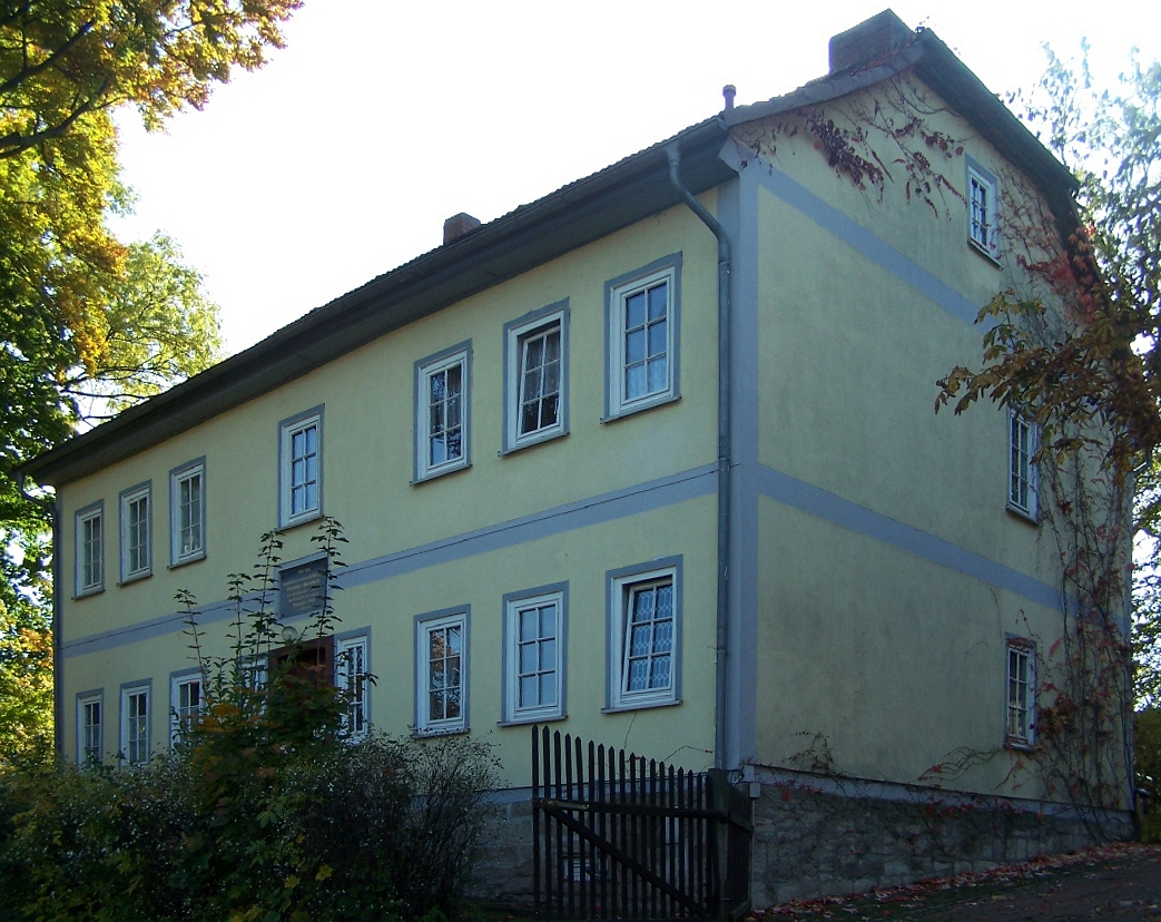 The birthouse of the shorthand inventor Friedrich Mosengeil in Schönau/Hörsel.